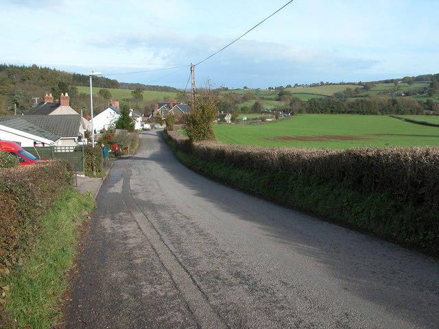 Monmouth Cap, Llangua Llangua Bridge on the A465 can be seen in the background.